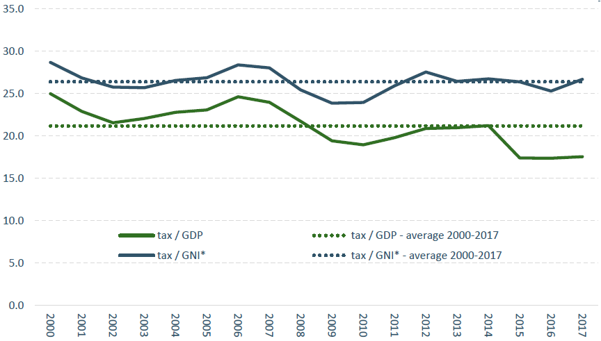 Recreation of Department of Finance chart on Irish Exchequer Tax Revenues to GDP and to GNI* from 2000 to 2017